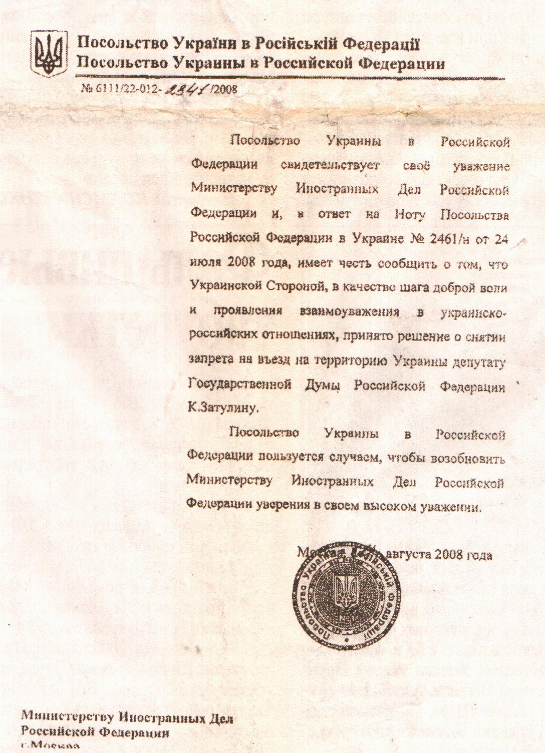 Ukrainian document, which cancels prohibit for Konstantin Zatulin to enter into Ukraine